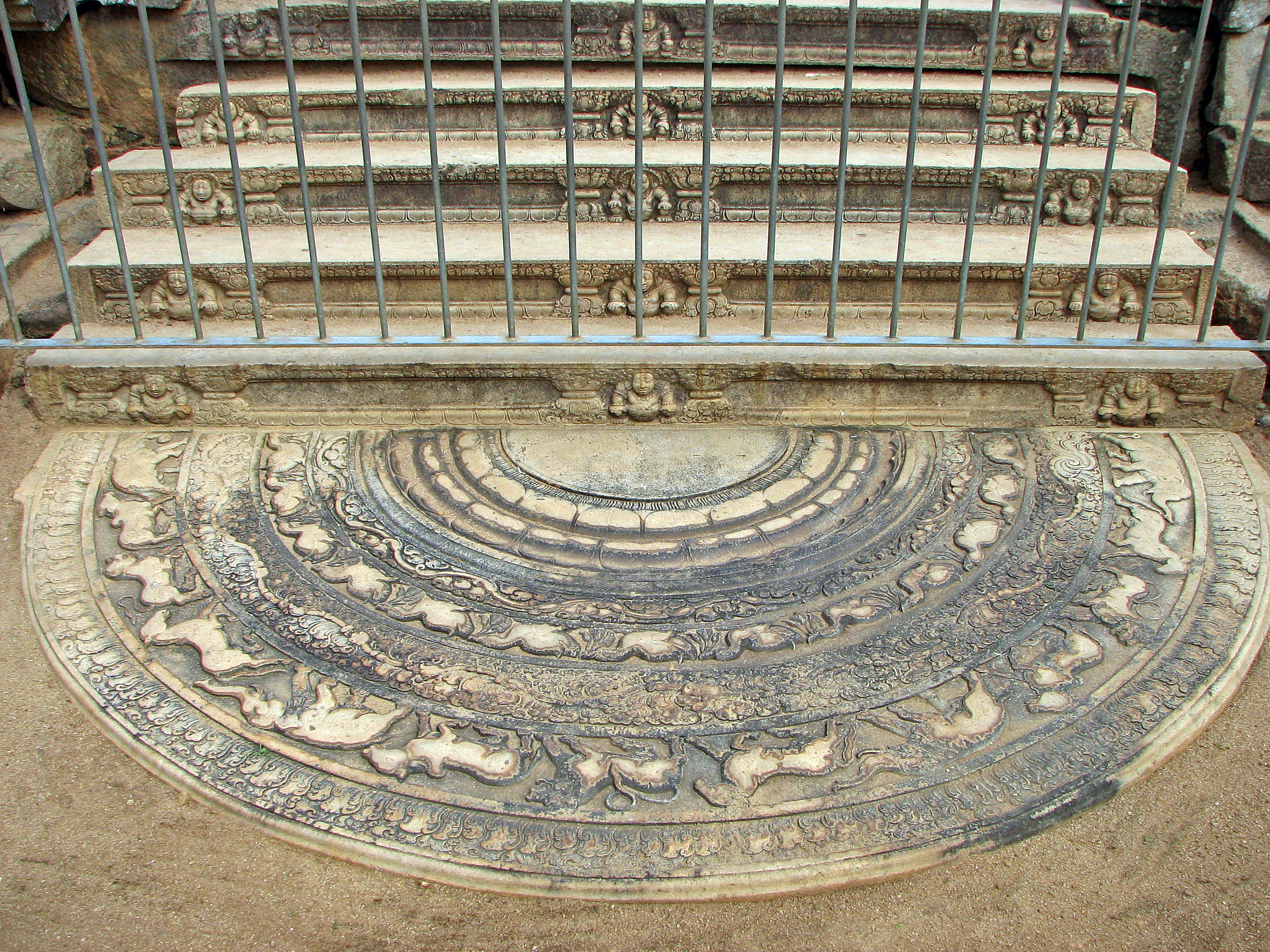 Moon-stone (Sandakada pahana), Anuradhapura, Sri Lanka